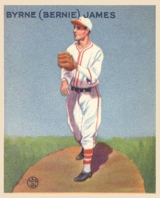 1933 Goudey baseball card of Byrne "Bernie" James of the New York Giants #208. PD-not-renewed.